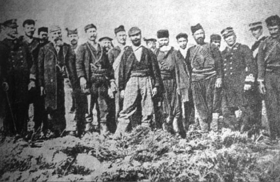 Eleftherios Venizelos at Akrotiri in 1897